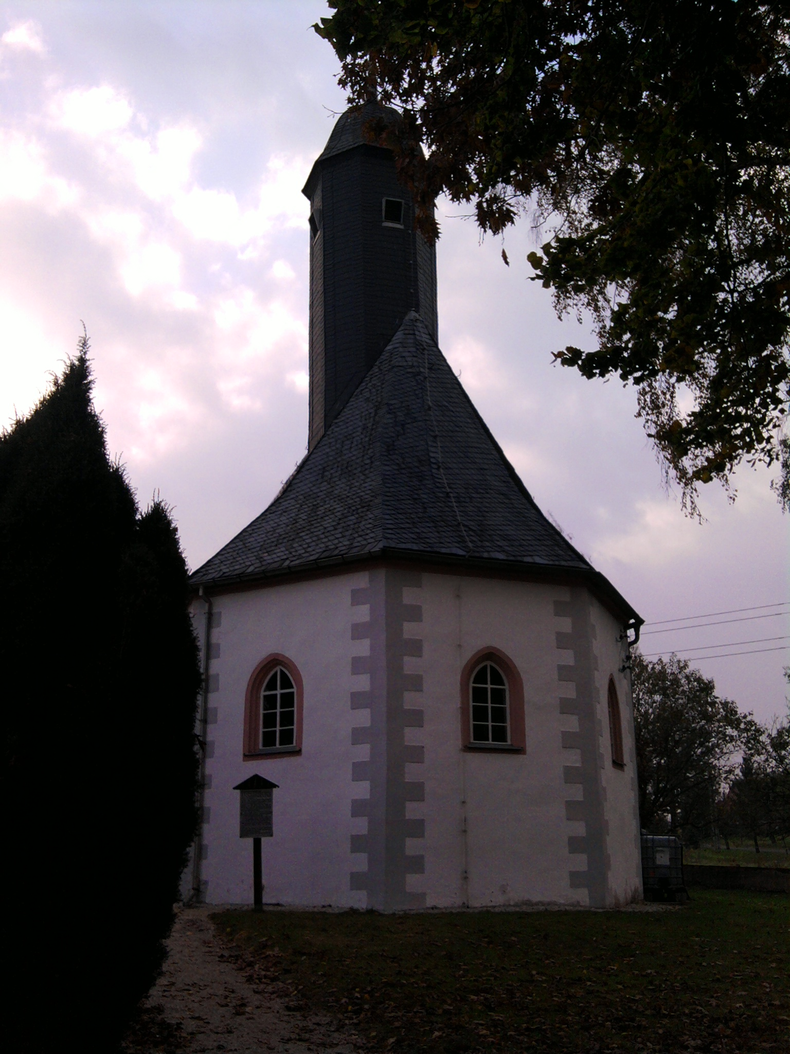 Church in thuringian village Wolperndorf near Altenburg